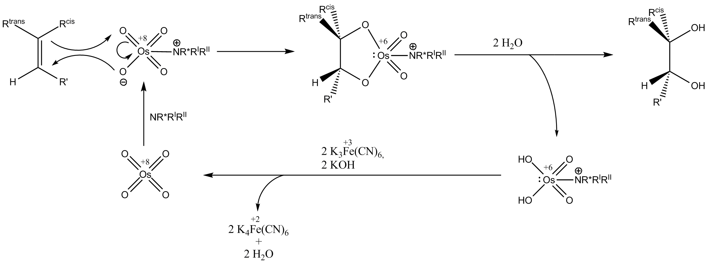 Reaction scheme of the Sharpless asymmetric dihydroxylation.